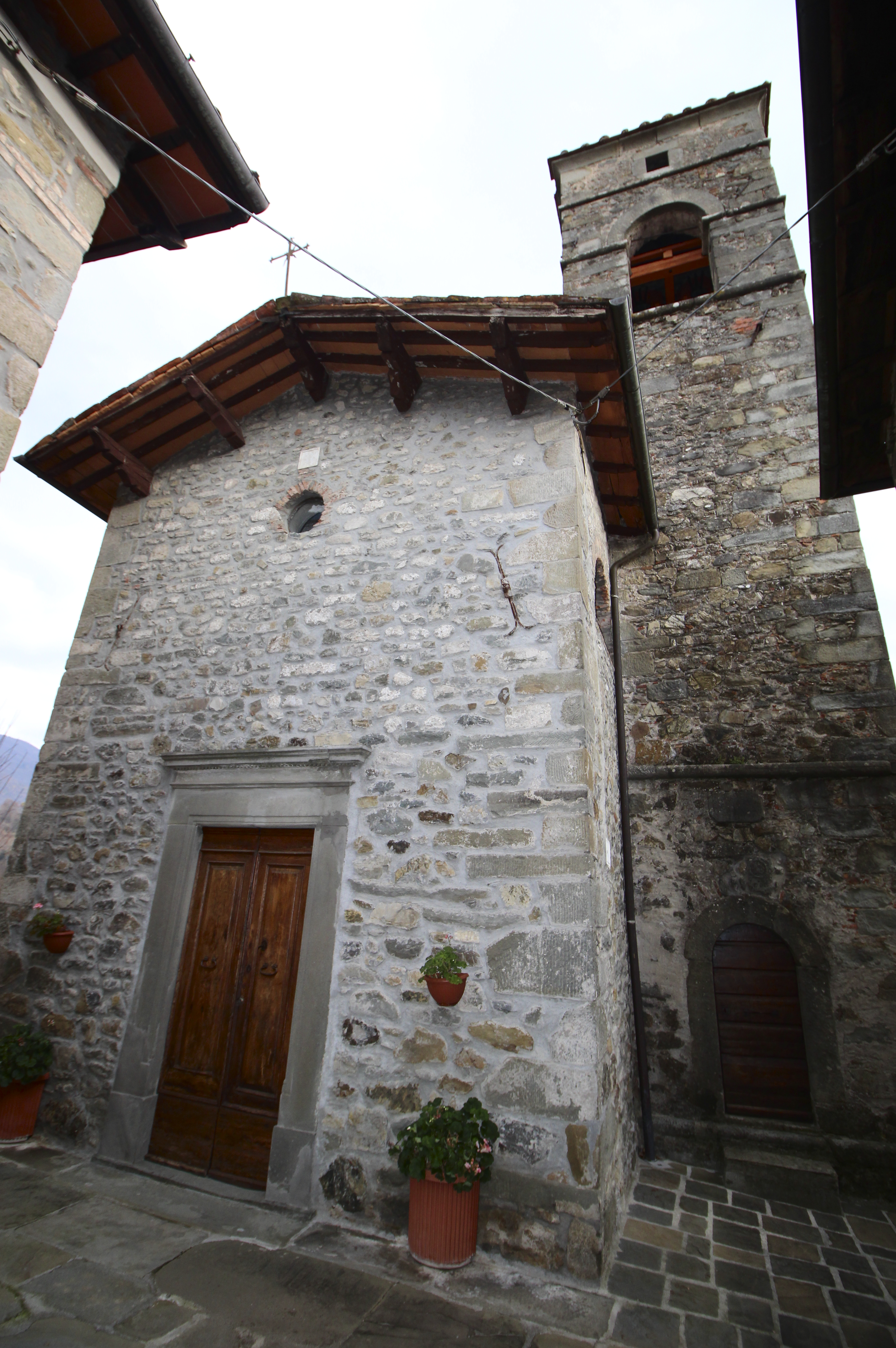 Church San Salvatore, Mozzanella, hamlet of Castiglione di Garfagnana, Province of Lucca, Tuscany, Italy